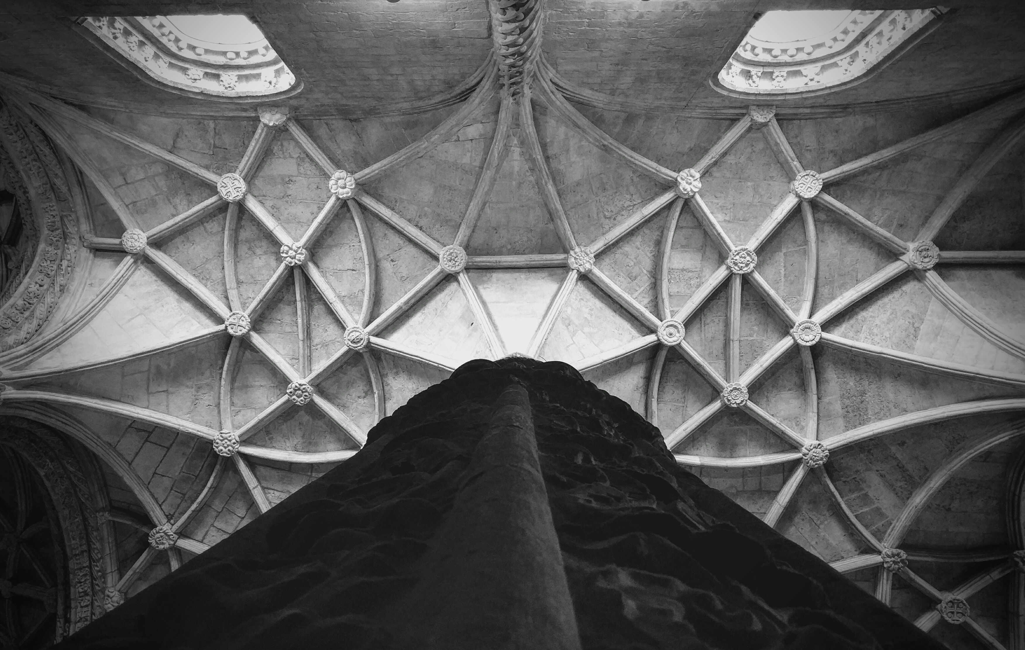 Jeronimos Monastery